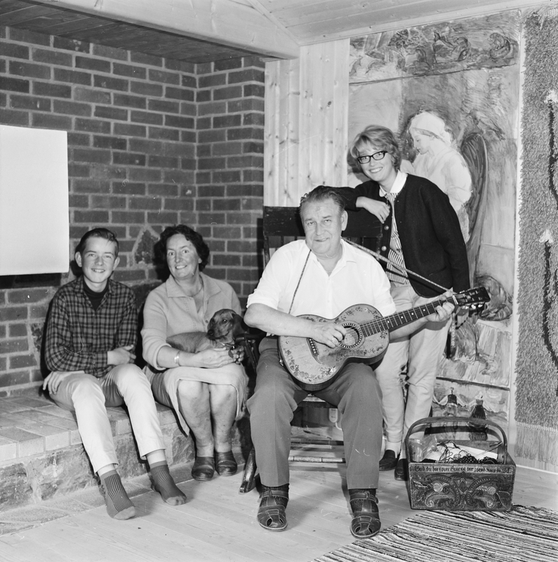 Norwegian author and artist Alf Prøysen at home in Nittedal with his family 1964